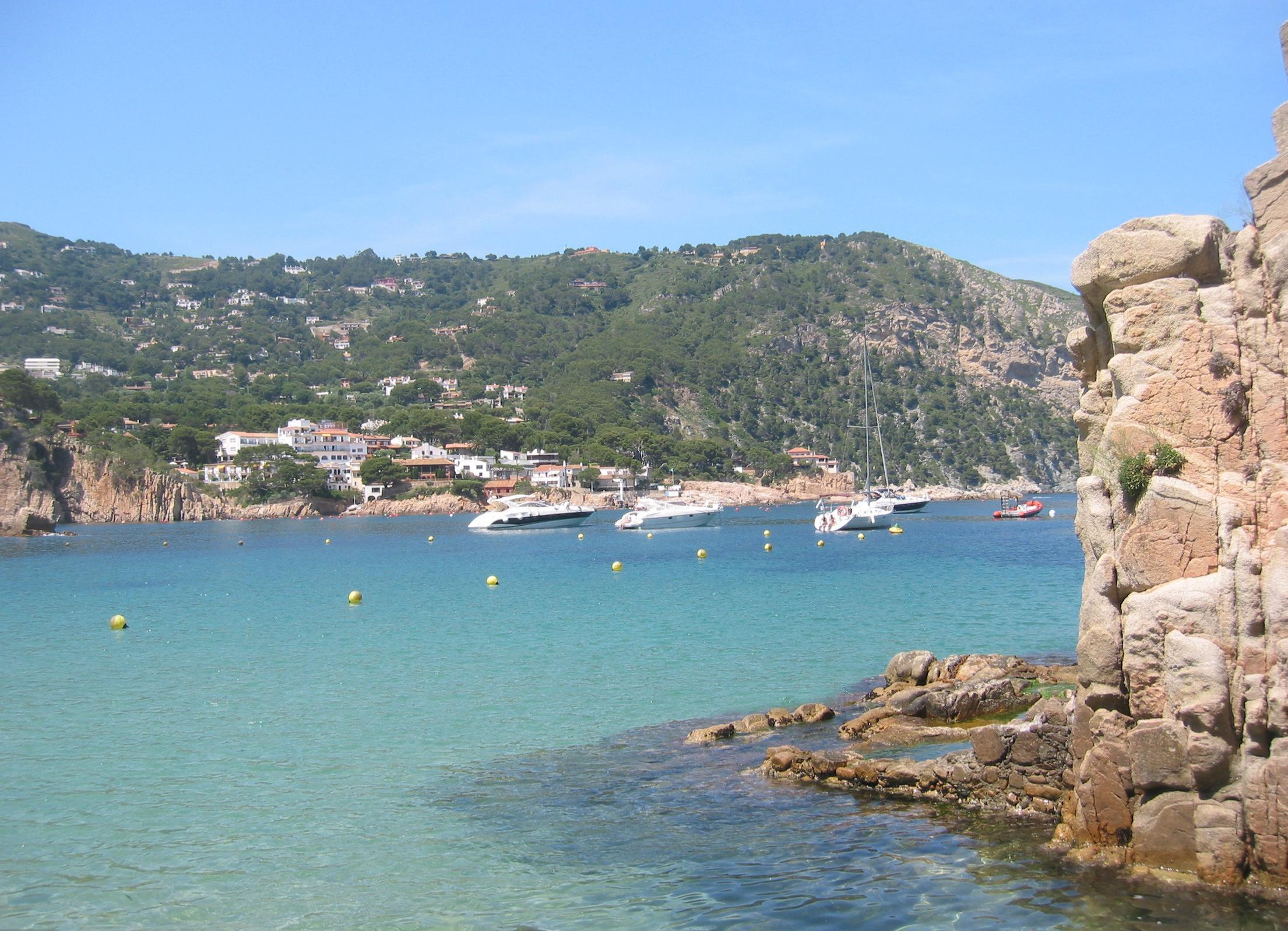 Aigua Blava, a small bay on the Costa Brava, Girona, Spain, near Begur, Spain, and Palafrugell.